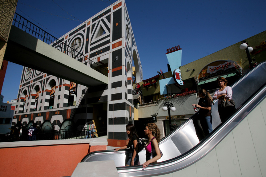 Shoppers at Horton Plaza in San Diego, CA, designed by The Jerde Partnership.